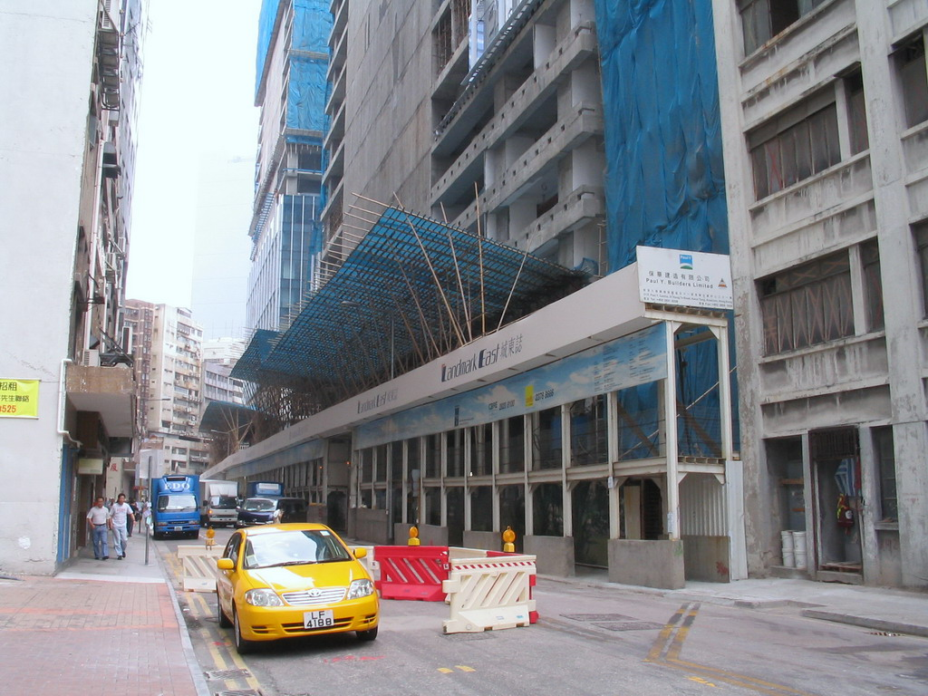 Construction Site of Landmark East, How Ming Street, Kwun Tong